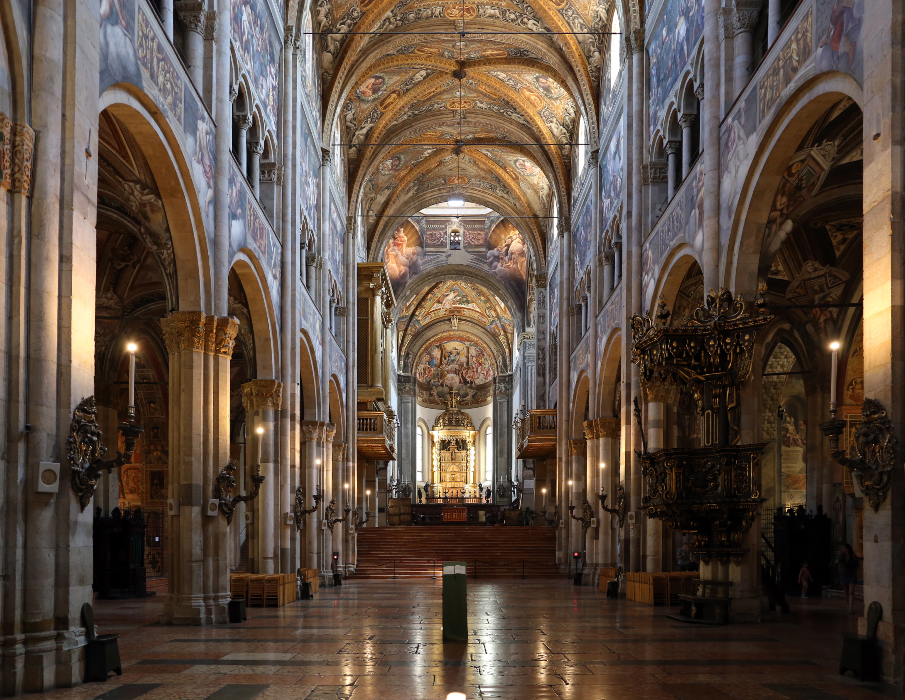 Cathedral (Parma) - Interior